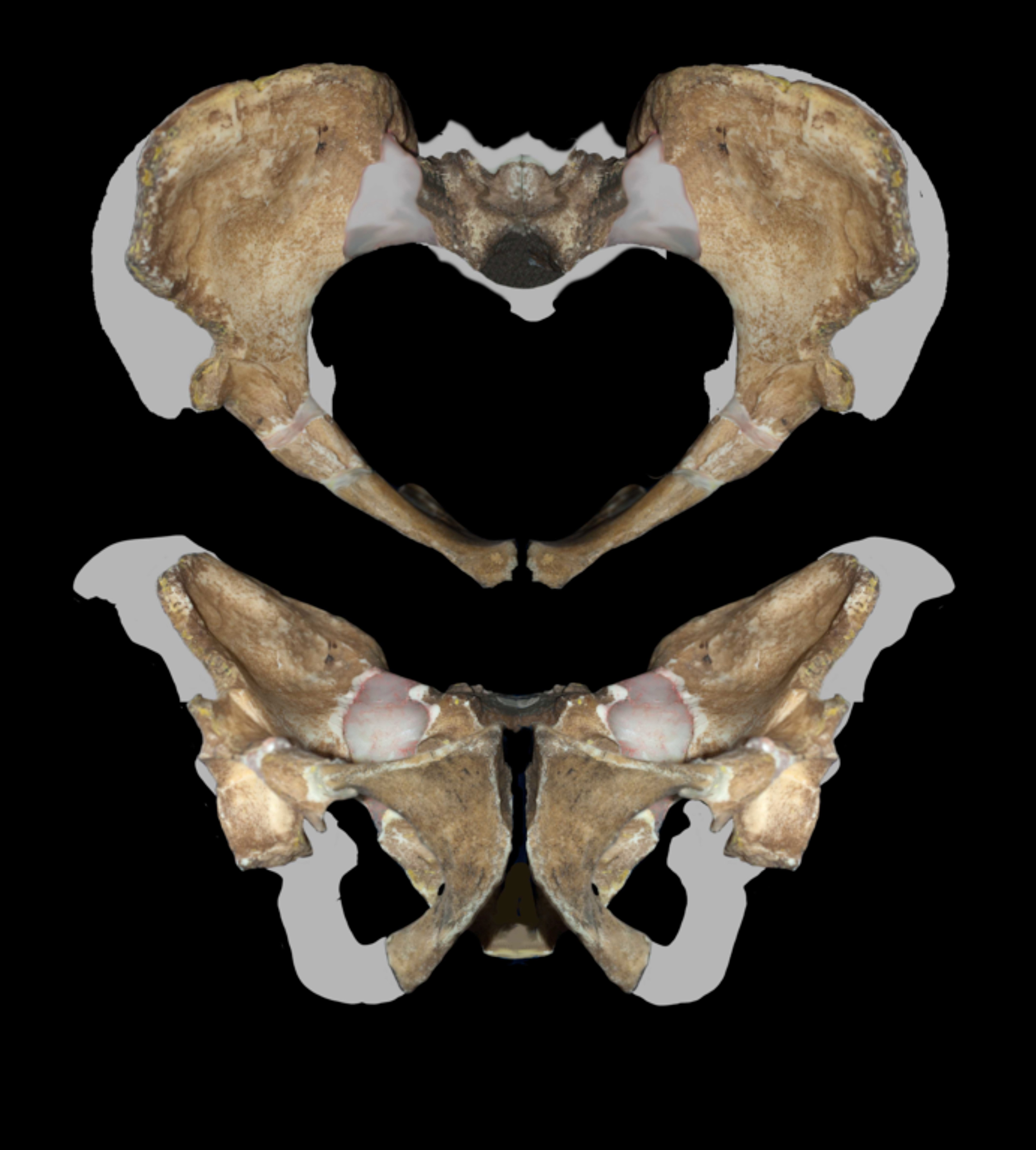 The reconstructed pelvis of MH2. Left side is a mirror image. Image created by Peter Schmid, courtesy Lee R. Berger and the University of the Witwatersrand.